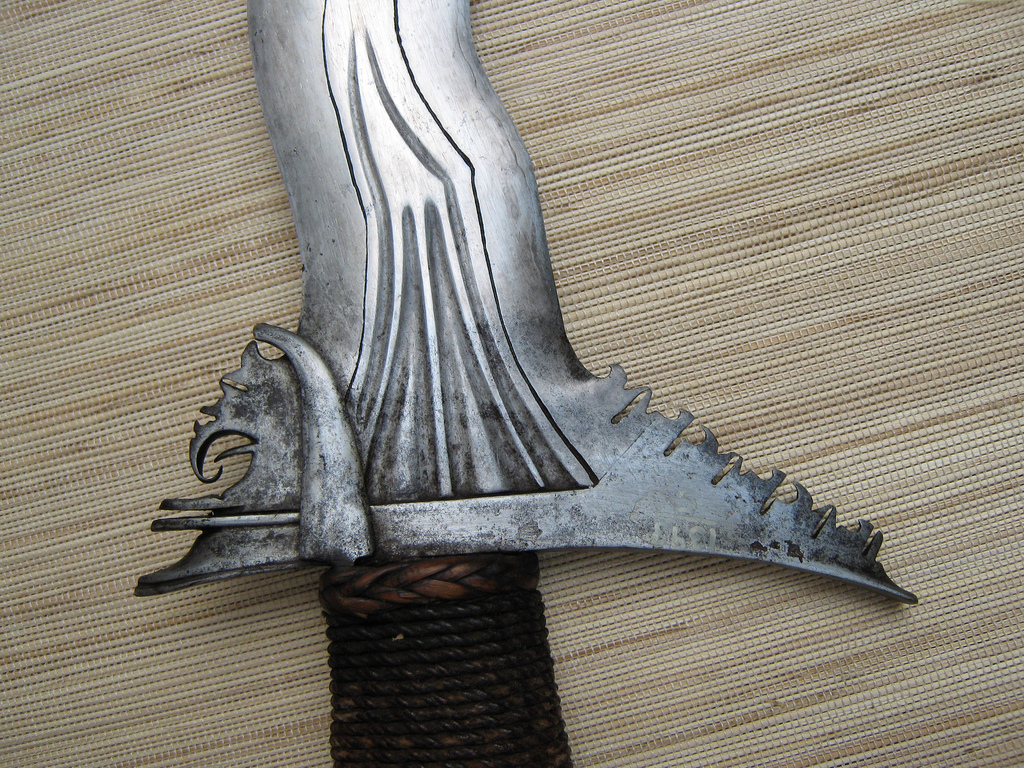 "The gangya (guard) of a kris blade is made in such a manner that their lines flow very elegantly into the blade, never interrupting in continuity from transition from gangya proper to blade. Antique kris (kris made before 1930) were made with a separate gangya (guard) like their Malay cousins, while more modern made kris lack this feature and have gangya that are in fact integral to the blade. Some newer kris do have an engraved line to simulate the appearance of a separate gangya, but when inspected closely it is evident that this is only a cosmetic engraved line, and not a true separate gangya. However, it must be noted that often the fit of the guard on older kris is so good, and combined with age/corrosion, often the demarcation line that would indicate a separate gangya is not visible without first re-etching the blade. Kris made before the early 19th century featured a gangya that met the blade proper in a straight line. However, at some point near the early 19th century, gangya started to be made with a distinct 45-degree angle near the terminus. Opposite the hook-like fretwork on the gangya, exists a curved cavity. It has been suggested that this cavity is representative of the trunk of an elephant, others contend that it is the mouth of the naga (serpent) with the blade being the tail, and still others contend that it is in fact the open mouth of an eagle." From In the above example, the demarcation line indicating the separate gangya (guard) can be seen. The above kris' overall photo can be seen here The kris is a 19th century piece, and it came from the Cheney Cowles museum (Spokane, Washington). Other uploaded materials by the same author are here: (a) Luzon weapons; (b) Visayan weapons; (c) Moro weapons; and (d) Lumad (non-Moro Mindanao) weapons